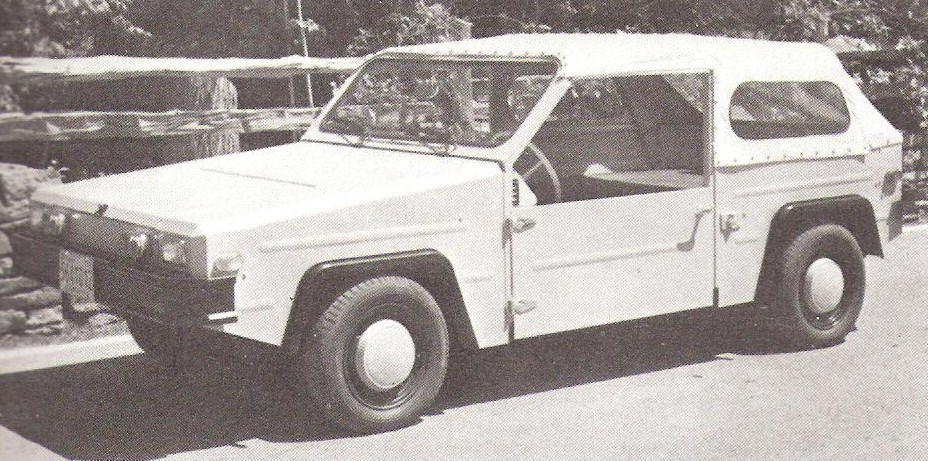 Electric (plug-in) from Canada, seventies.